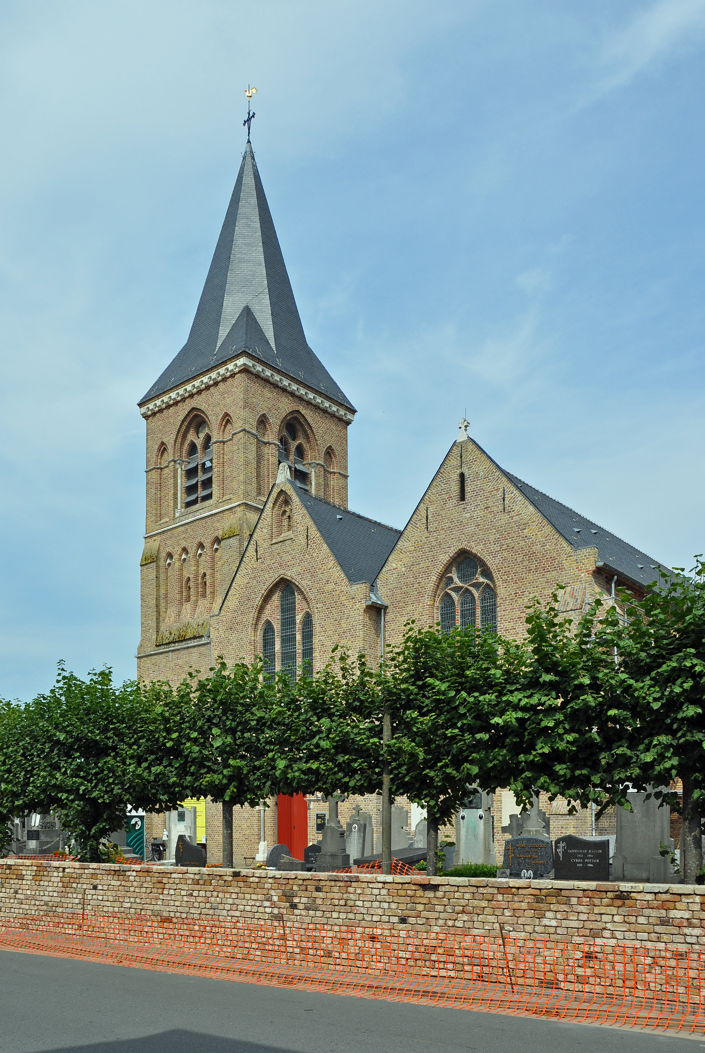 Zerkegem (Jabbeke, province of West Flanders, Belgium): Saint Vedast church